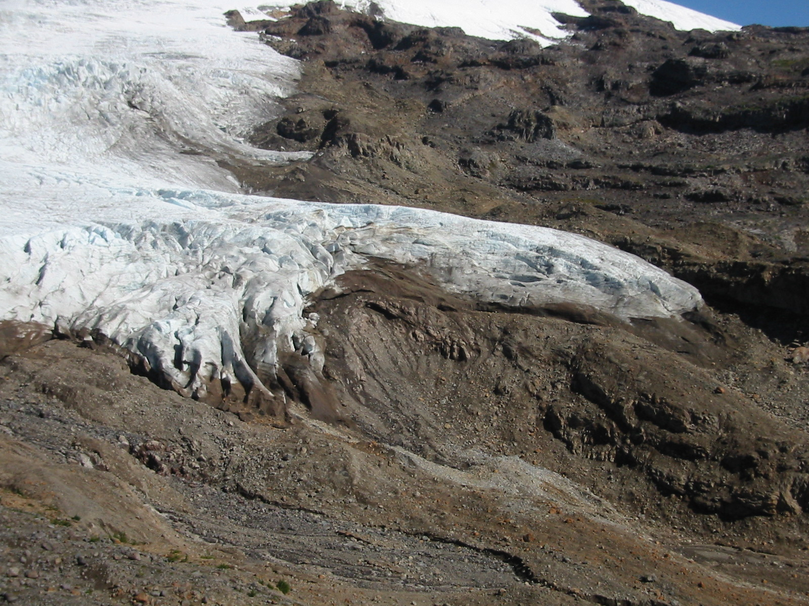 Easton Glacier terminus